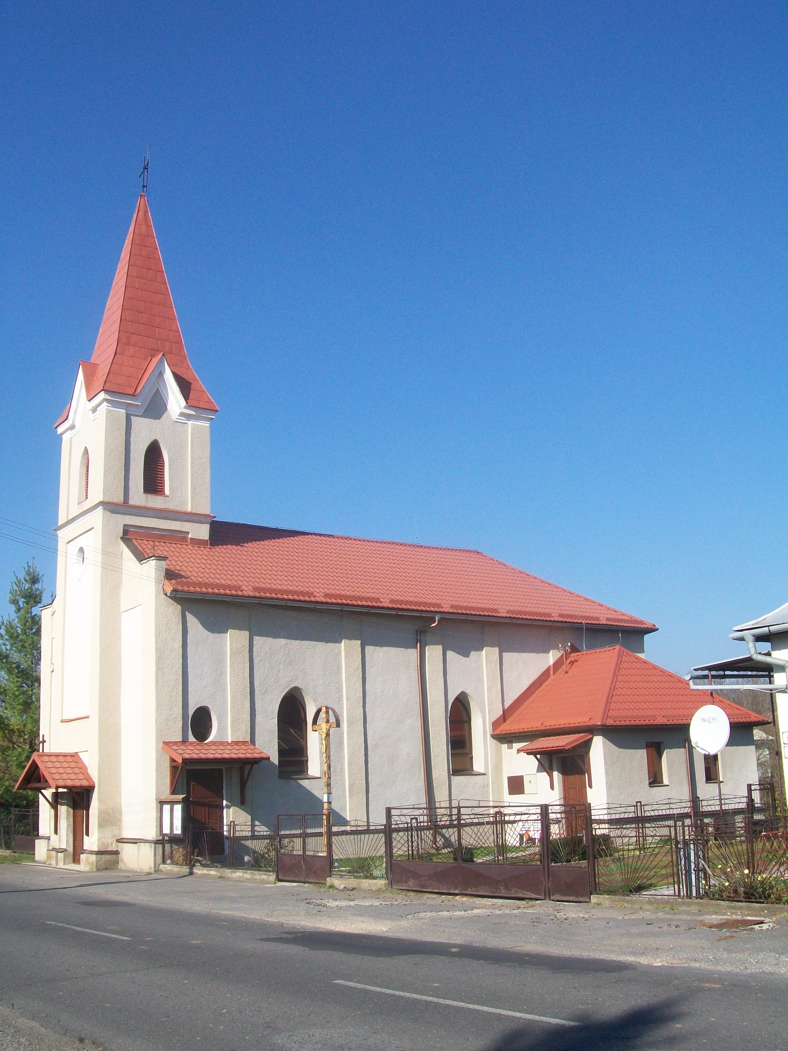 The Roman Catholic Church of the assumption of the Virgin Mary from the 18. century